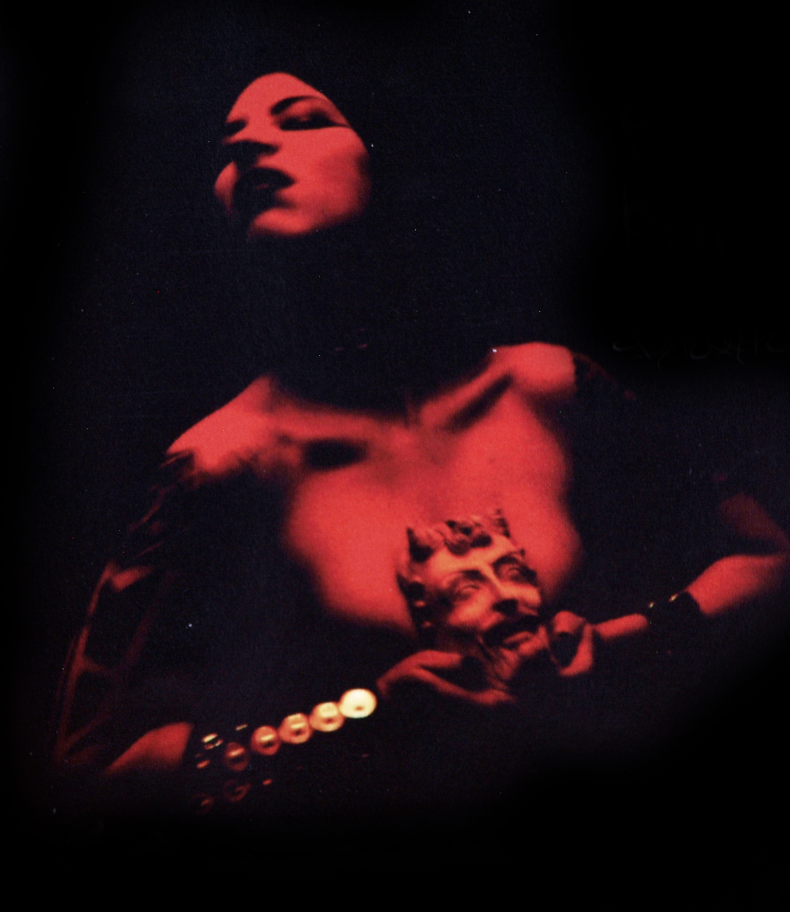 Hecate as seen on the cover of Brew Hideous, 2006.